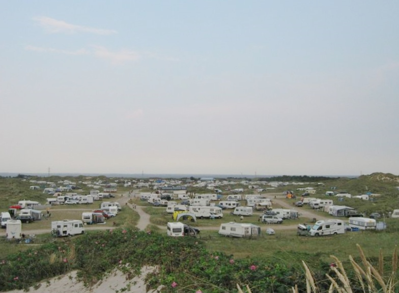 Campsite Nr. Lyngvig, Hvide Sande. One of the biggest Campsite in Jutland.